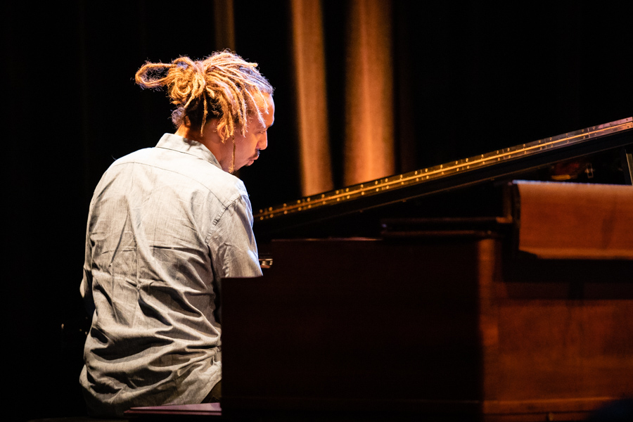 Gerald Clayton in a concert with John Scofield at Victoria Teater. The concert took place on 10. May 2019 in Oslo. Lineup:John Scofield (guitar)Gerald Clayton (grand piano and hammond organ)Vicente Archer (double bass)Bill Stewart (drums)Joe Lovano (saxophone)